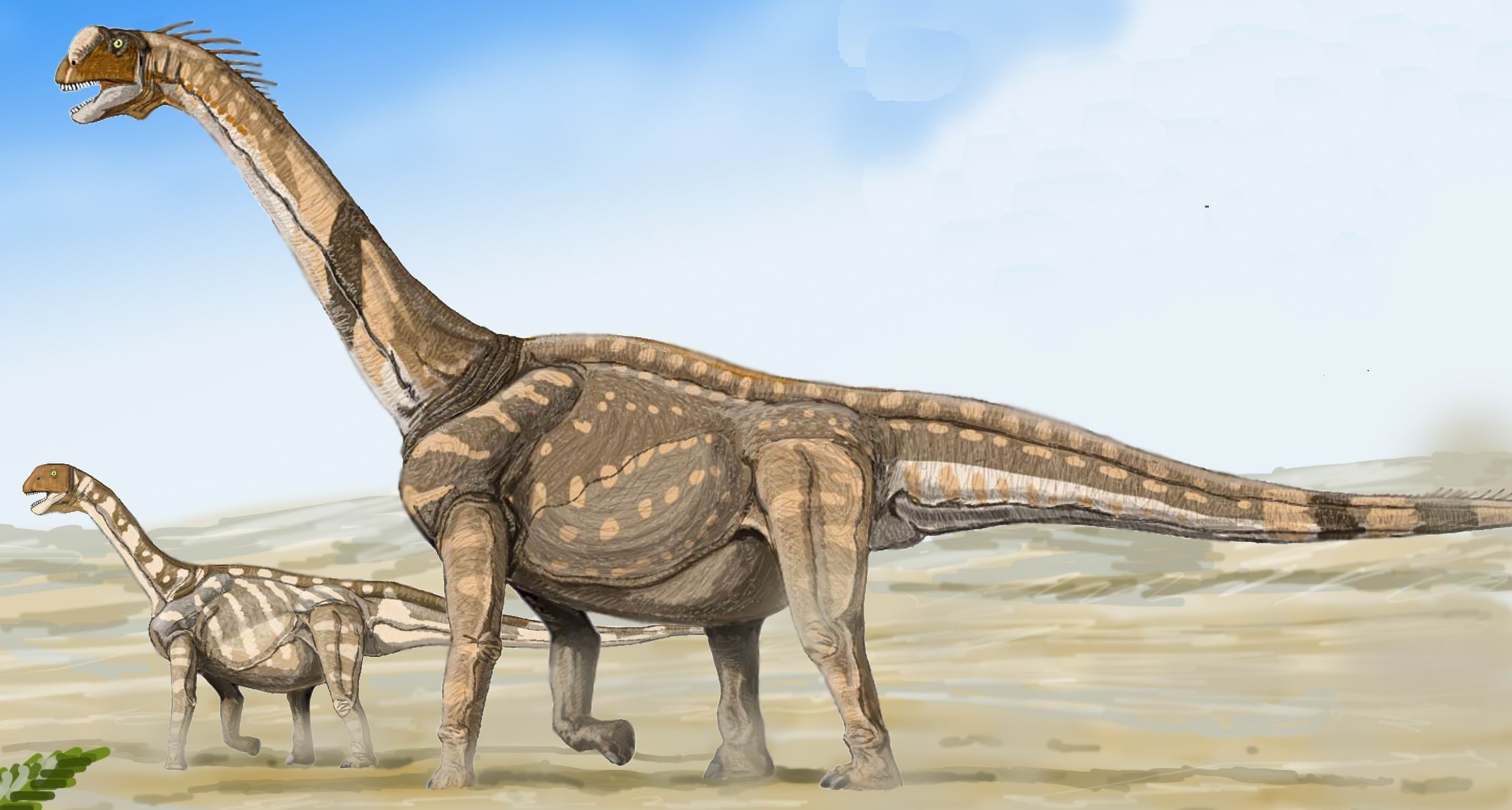 Cropped image of taxon in file name